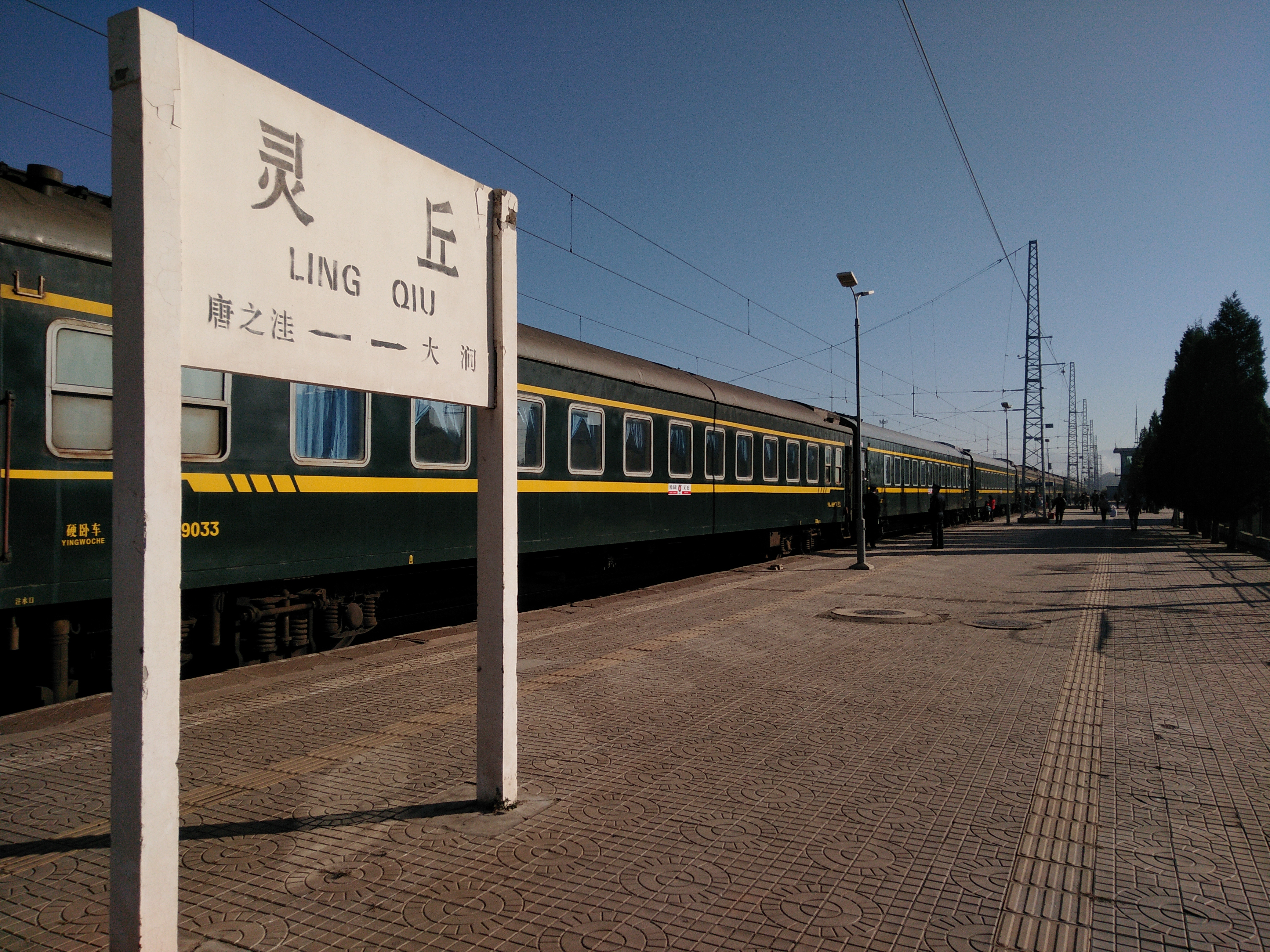 Platform of LINGQIU Station of Beijing-Yuanping Railway.Train 4617 leaving soon.